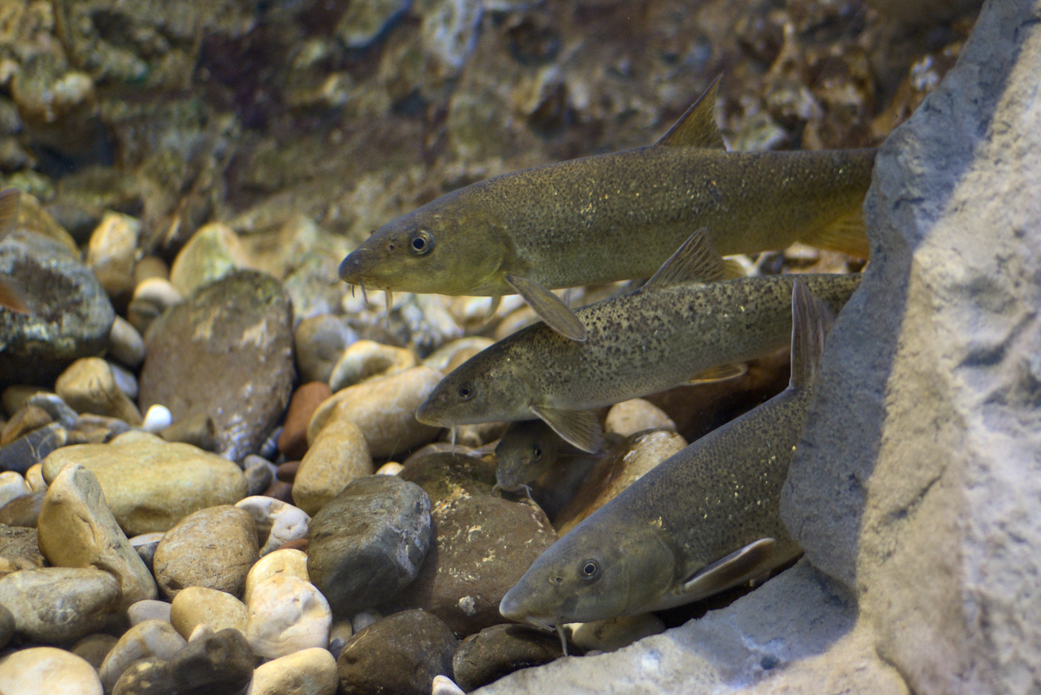 Just another shot made at the aquarium. This fish is usually called "Barbo", which resembles the Italian for "beard"; a well suited name, if you look at his mustaches. Luckily it's a calm fish so it's not so difficult to make photos at him... swimming into the aquarium of course!